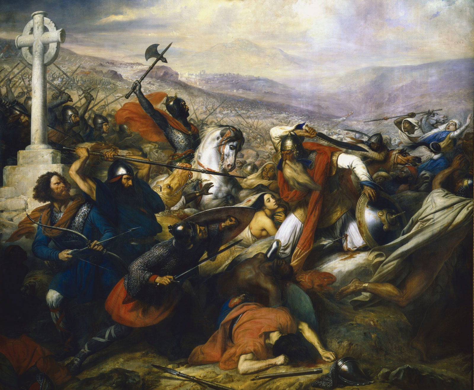 Charles Martel in the Battle of Tours